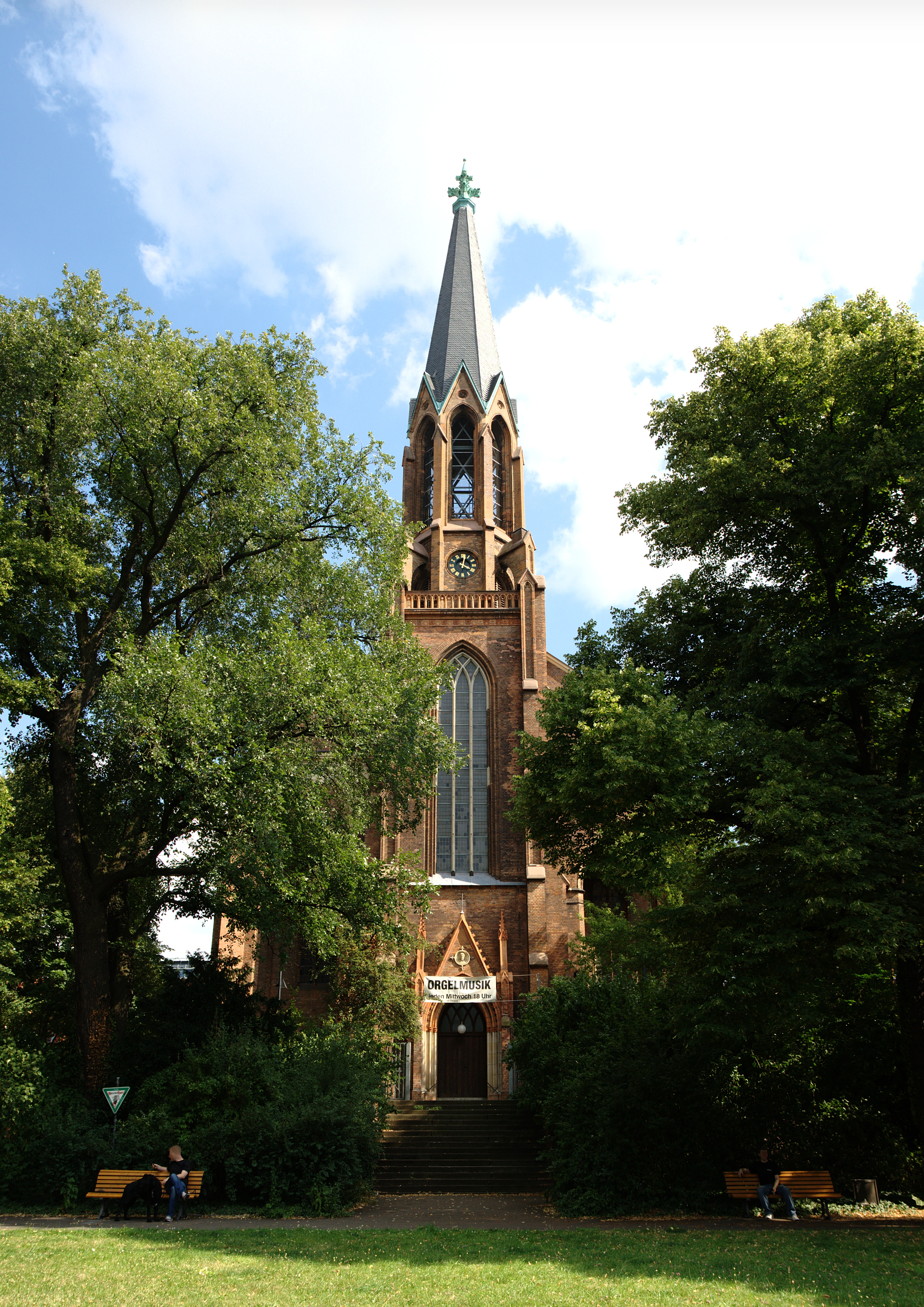 St. Bartholomäus-Church in Berlin, Germany